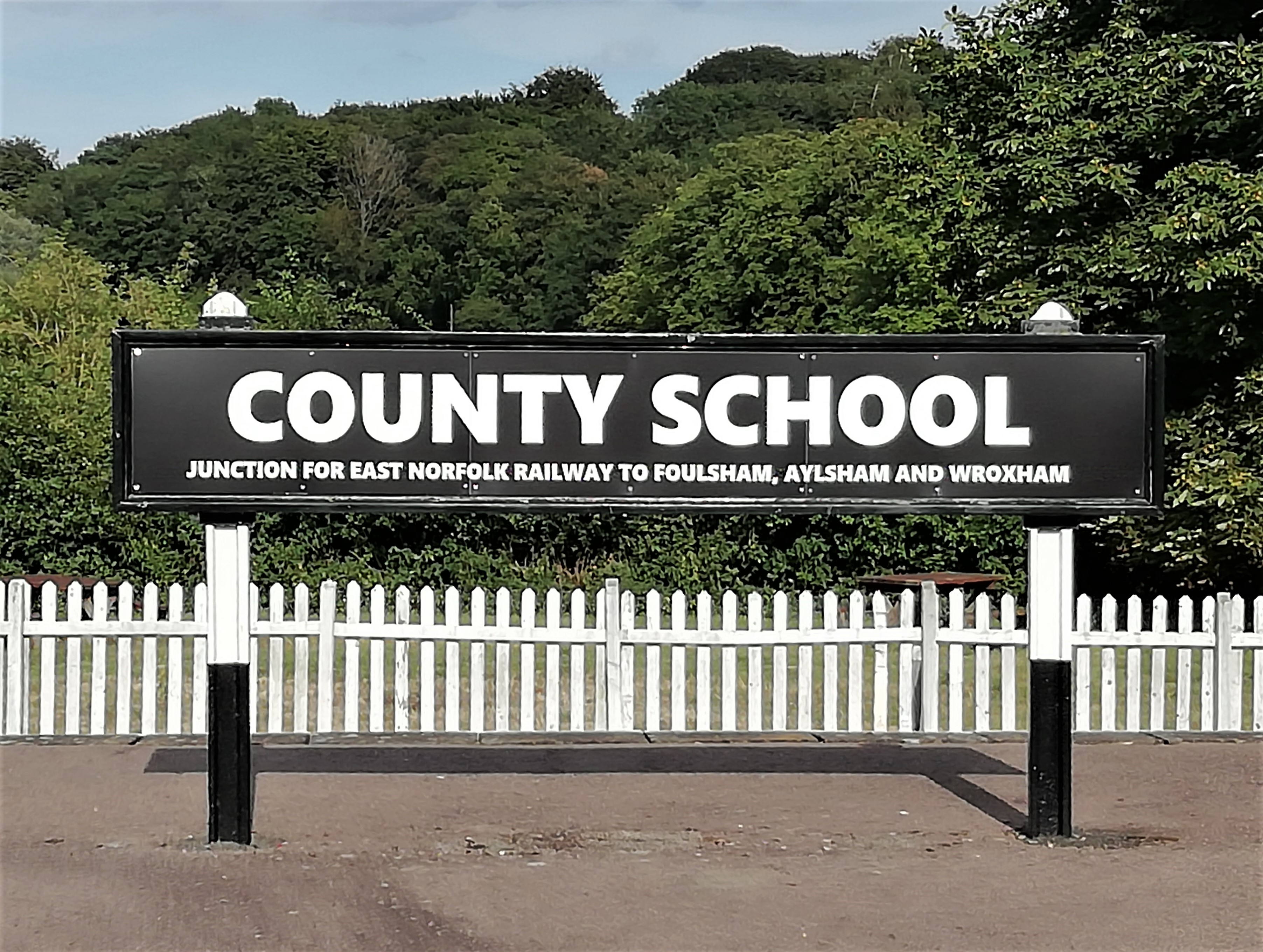 Station board at County School - modern replica recreating text from original signage.